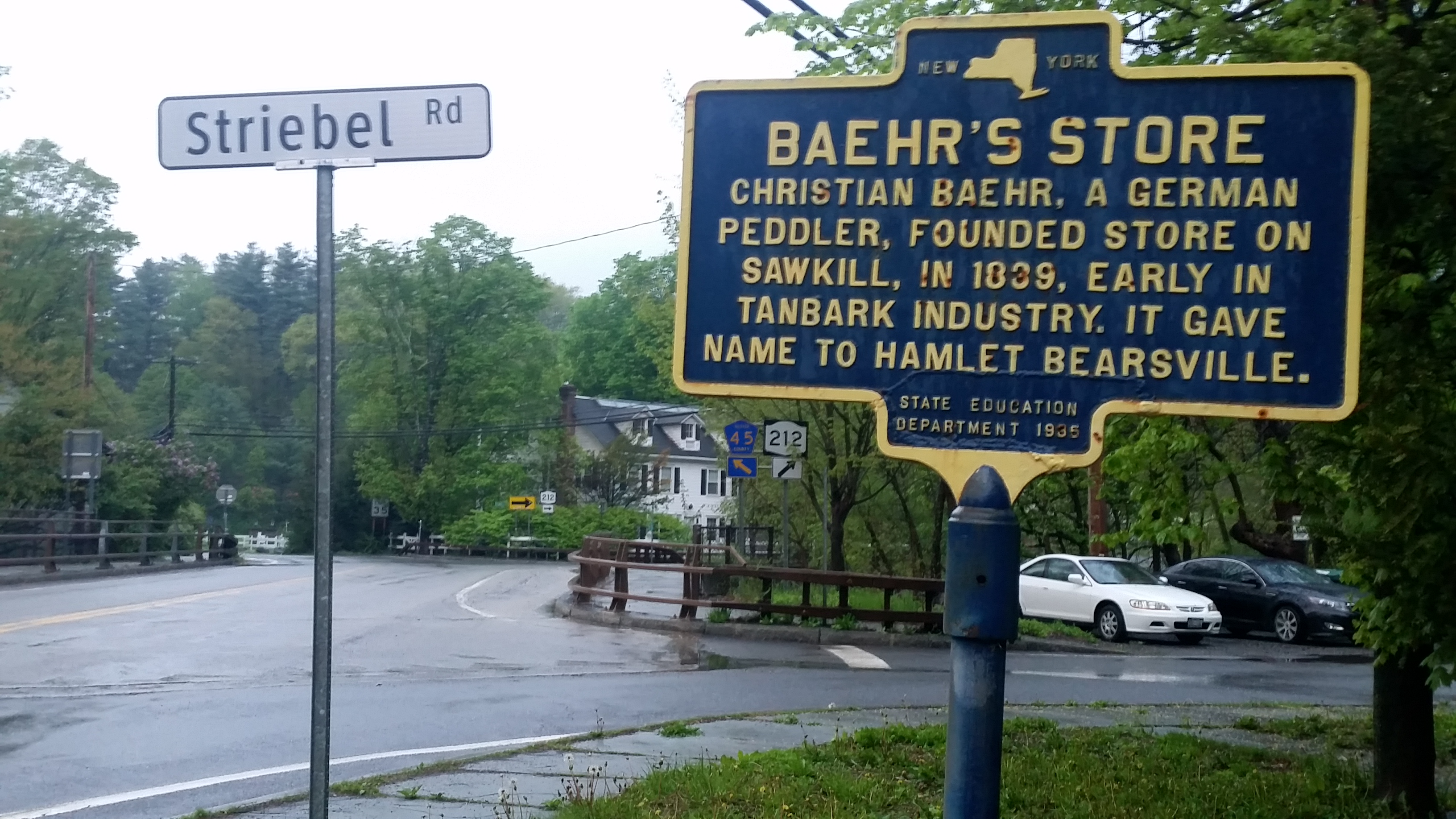 New York State historical marker for Baehr's Store, which gave its name to Bearsville